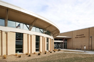 A picture of the recently added library and front entrance to the school.